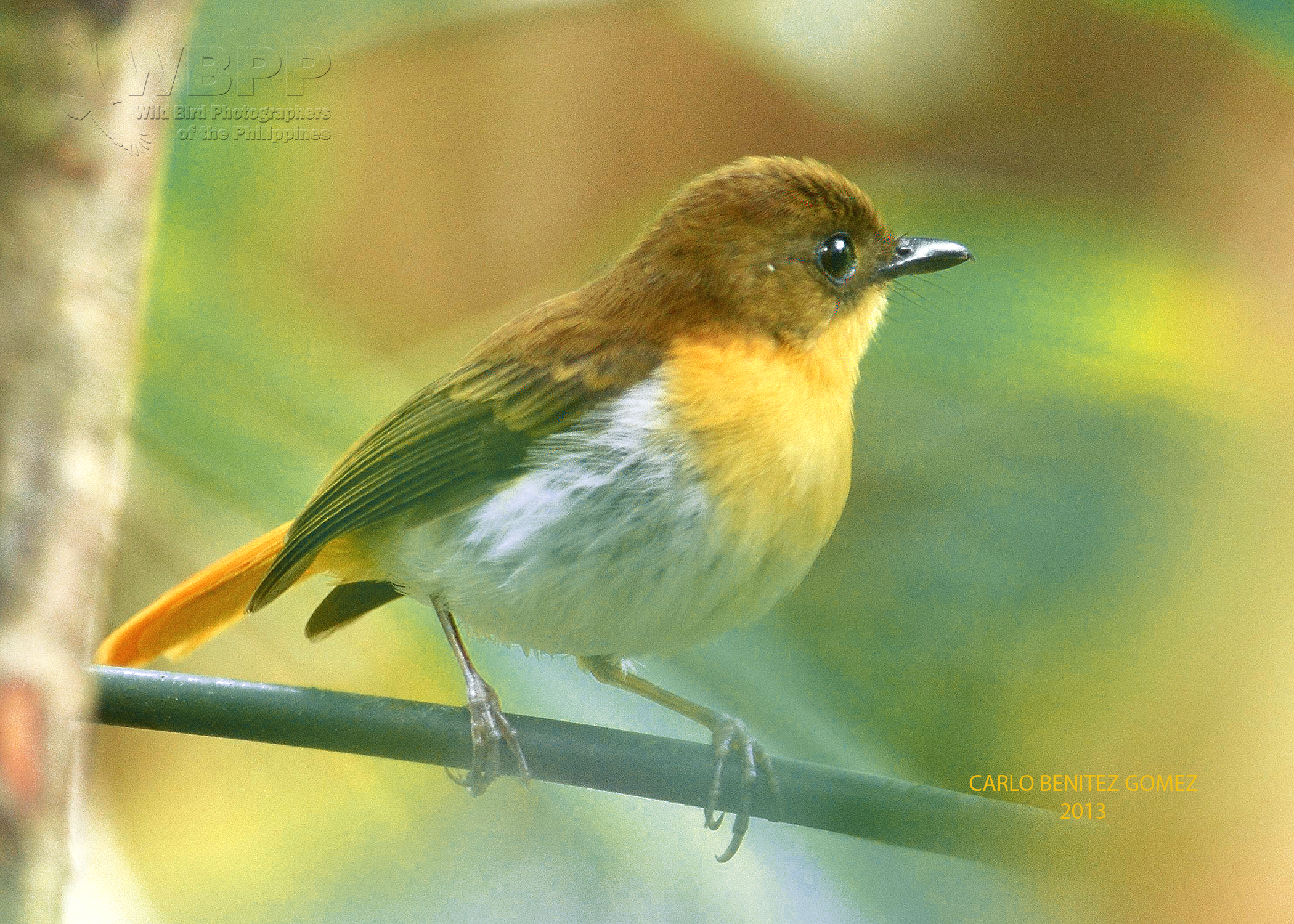 Palawan rare endemic. Photo taken in Puerto Princesa City, Palawan